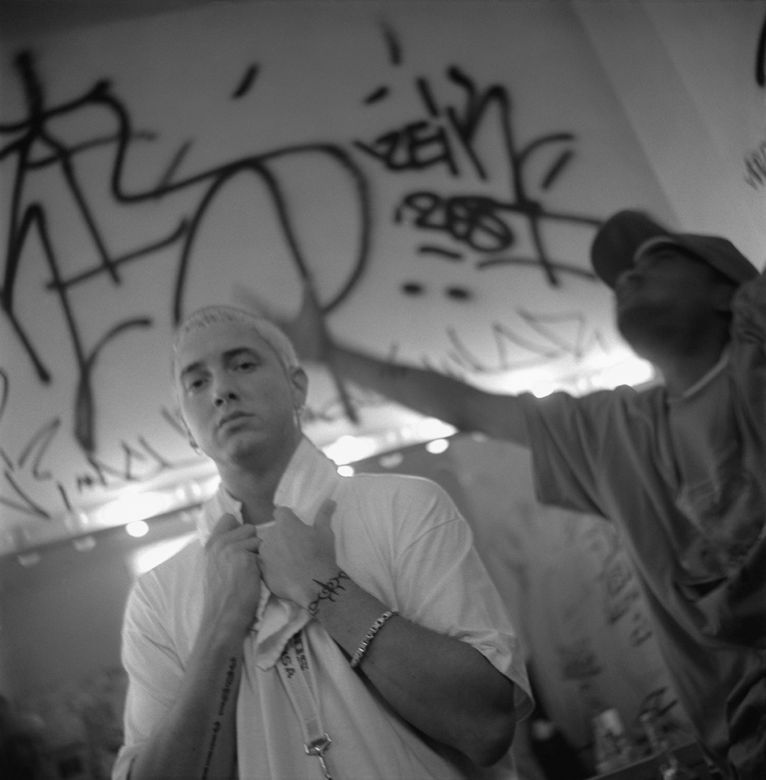 backstage in Munich/Germany 31.10.1999